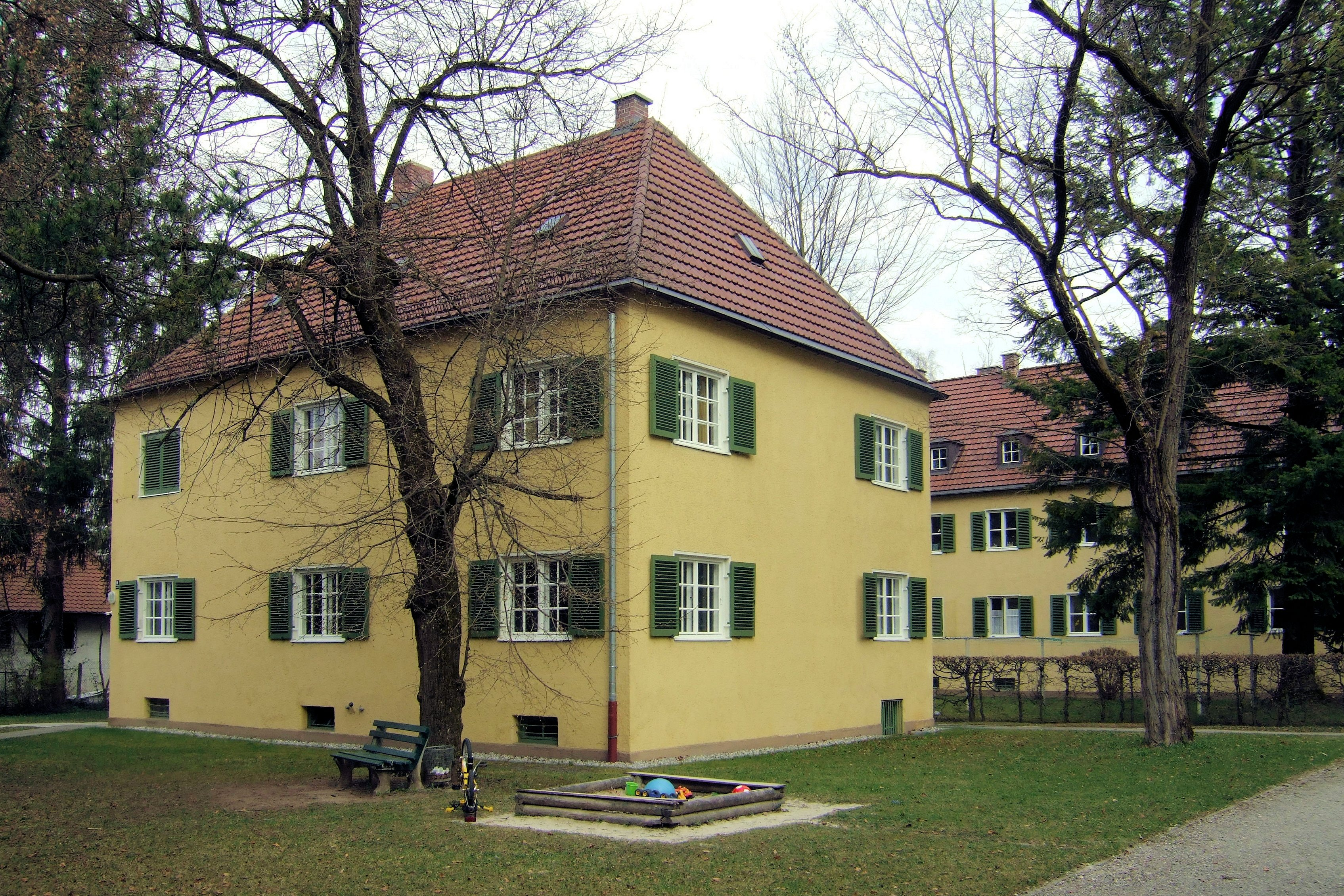 Ottobrunn: Housing scheme of the 1930s. The four buildings (front: 10 Prinz-Otto-Straße, back: 5 Feldstraße) were originally erected for air force officers stationed in the nearby Neubiberg air base.